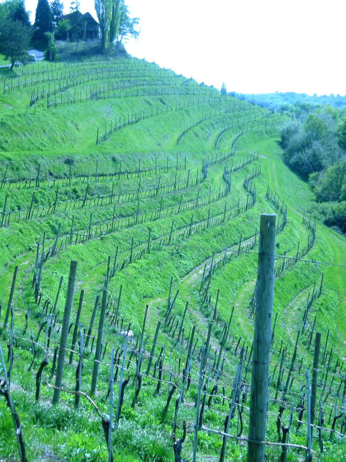 Vineyards at Jeruzalem, Slovenia photo:Ziga 10:17, 20 March 2007 (UTC)